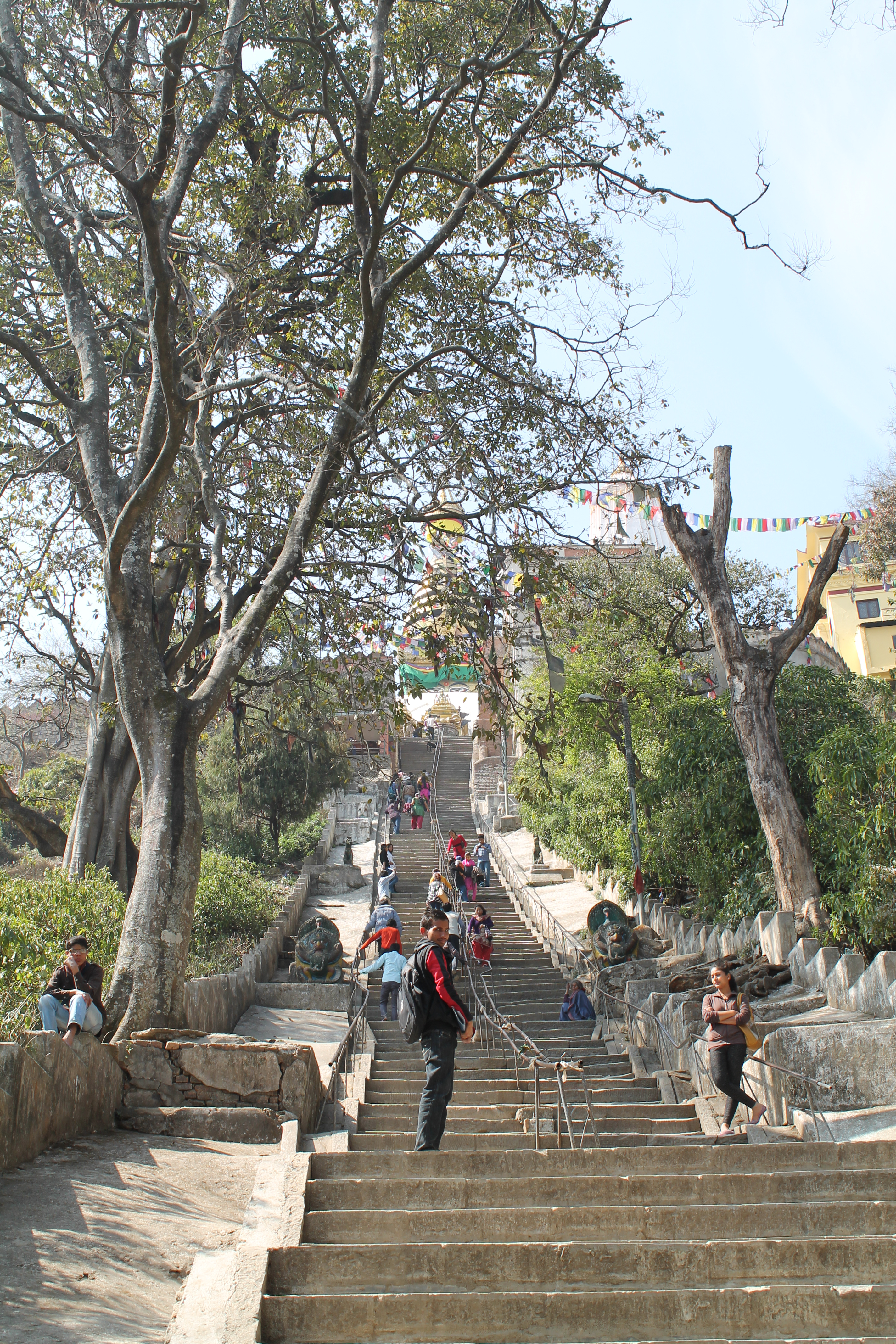 Stairs at Swayambhunath Temple